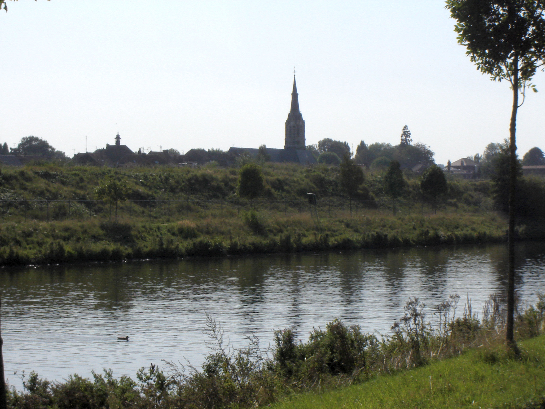 Bousbecque and Eglise Saint Martin, as seen from the Belgian side of the Lys/Leie river. Nord, Nord-Pas-de-Calais, France.